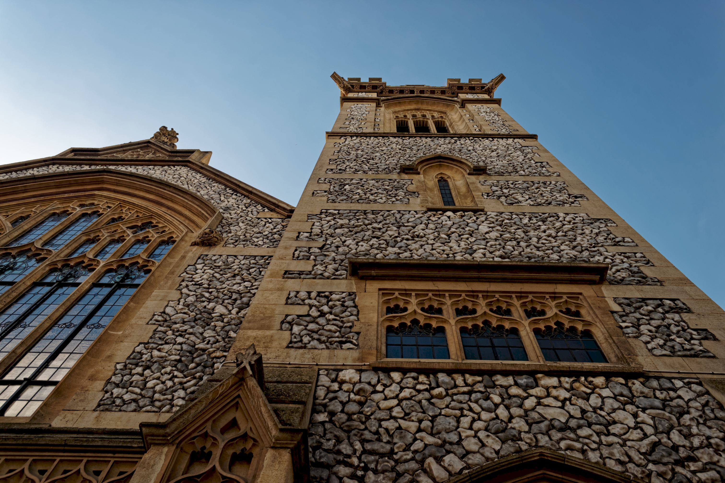 Cambridge - St Andrews Street - View WSW & Up on St Andrews Street Baptist Church 1903 by George and Reginald Palmer Baines